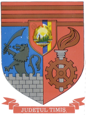 Communist coat of arms of Timiș County, Socialist Republic of Romania.